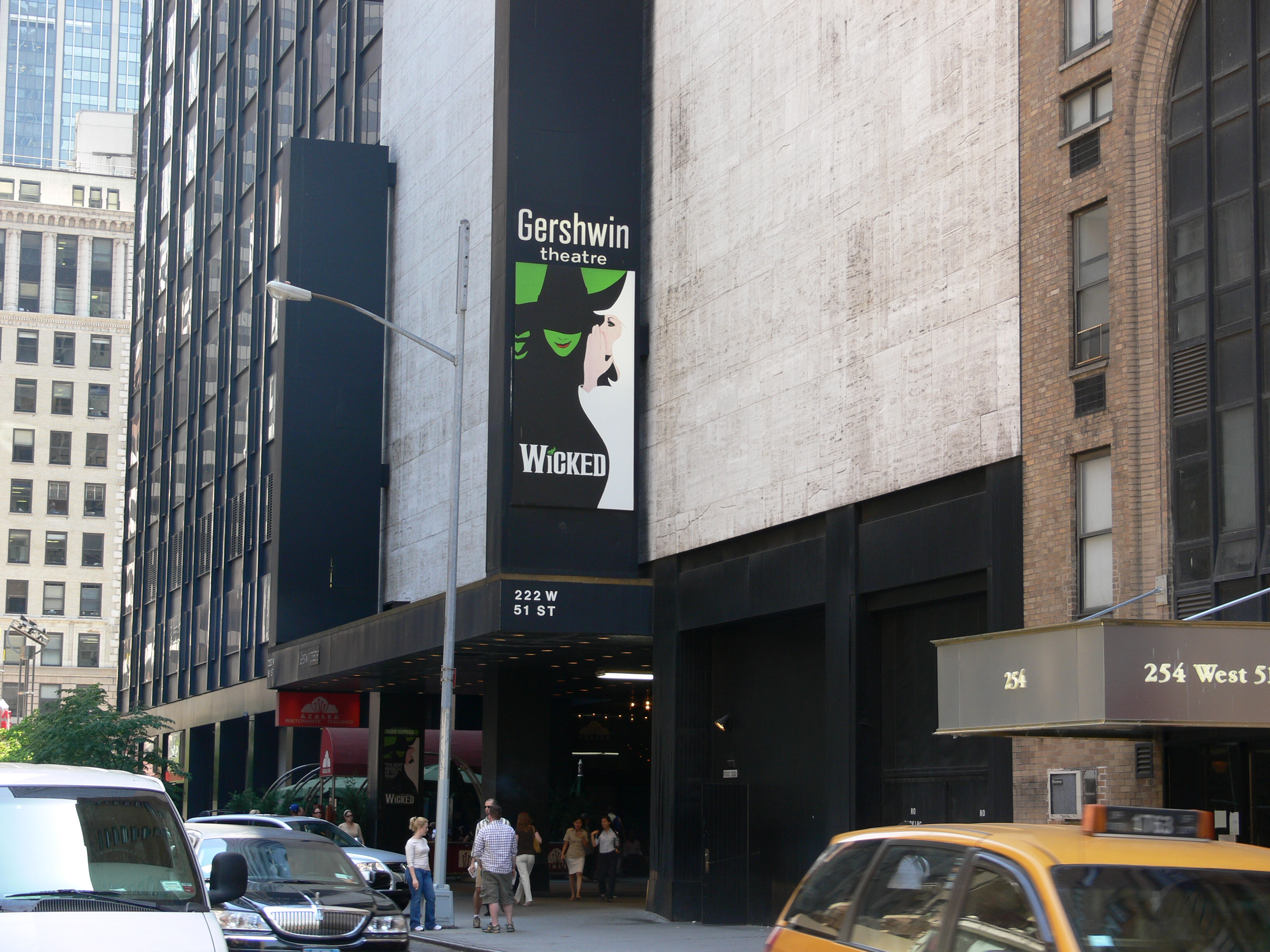 George Gershwin Theatre, showing the musical Wicked 222 West 51st Street, Manhattan, New York City